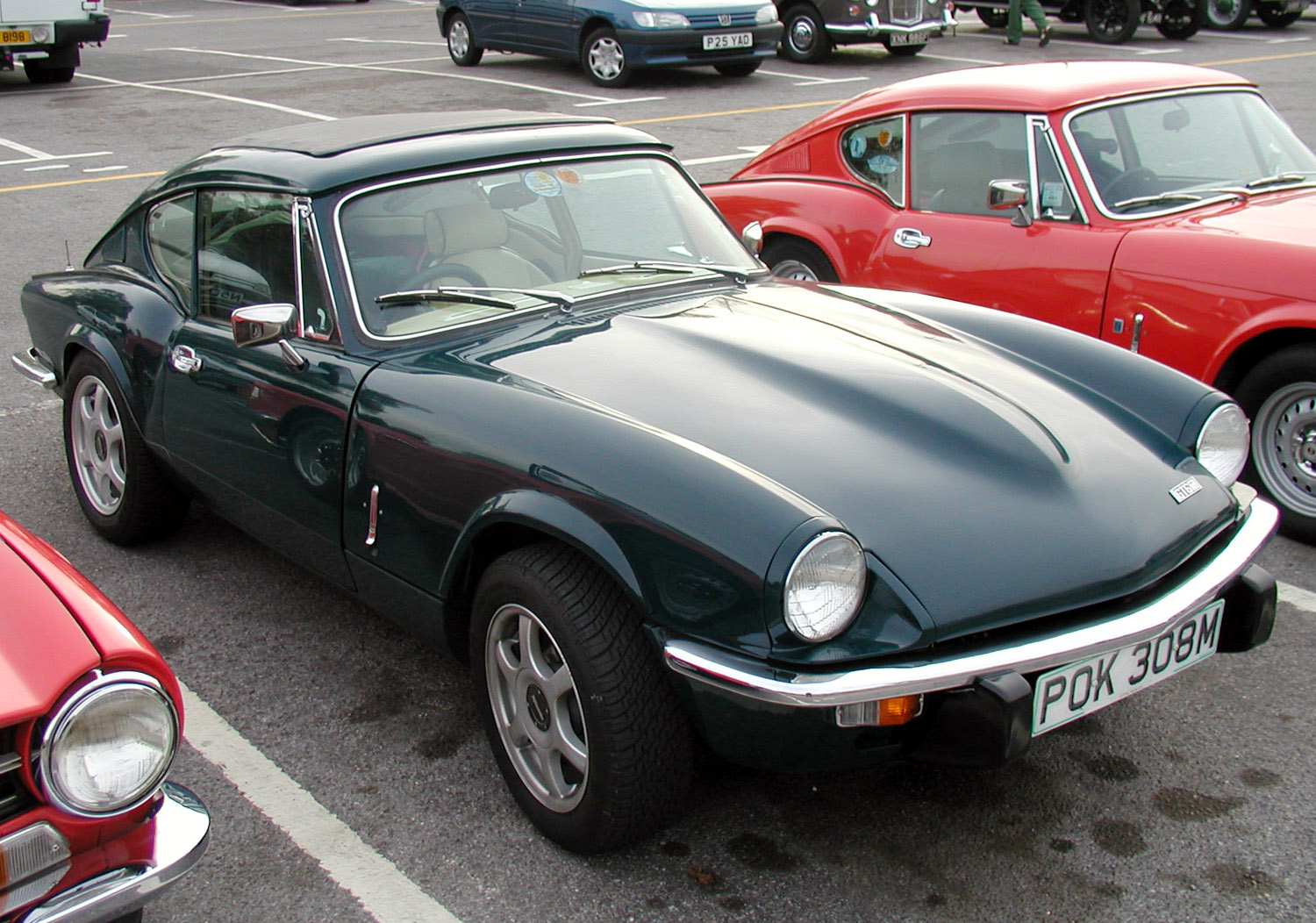 1974 Triumph GT6 Coupé at The Great West Road Run rally, Aust, Bristol, England. Taken by Adrian Pingstone in October 2003 and released to the public domain.